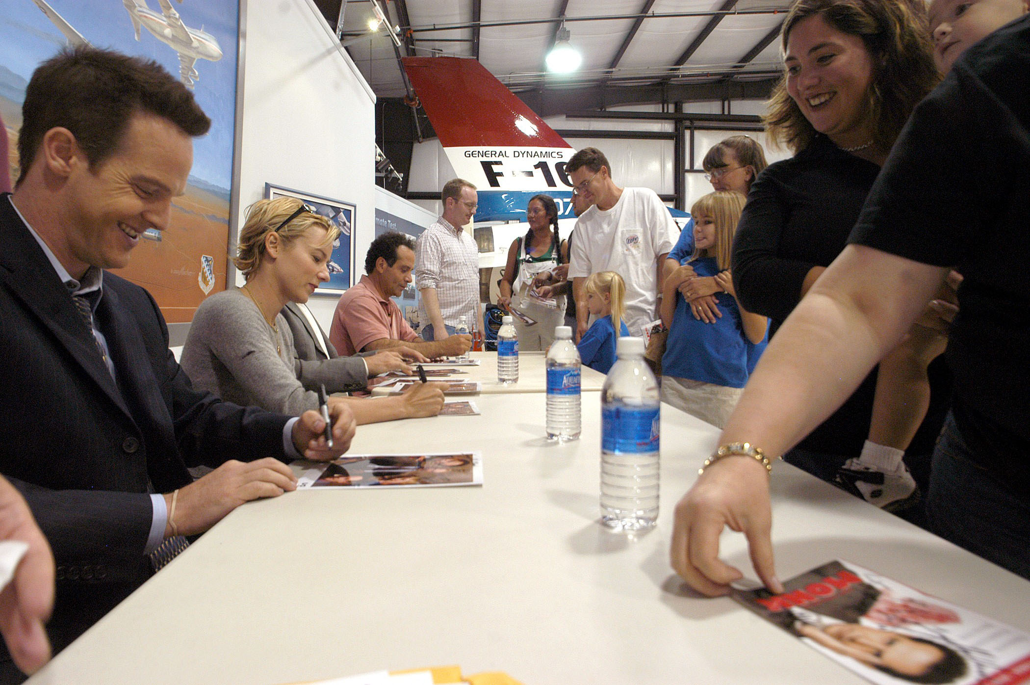 EDWARDS AIR FORCE BASE, Calif. -- More than 200 people received autographs from the cast of NBC Universal and USA Network's show "Monk" here Sept. 9. The cast and crew wrapped-up a two-day filming of a new episode scheduled to air on USA Network in January 2006. Left to right: Jason Gray-Stanford, Traylor Howard, Tony Shalhoub. Actor Ted Levine is likely next to Shahloub, but is obstructed by Howard.